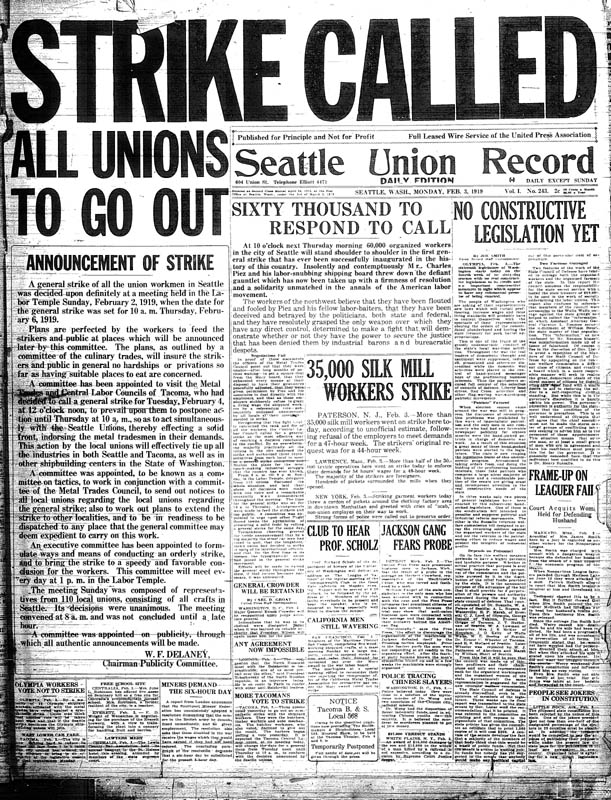 Front cover of the